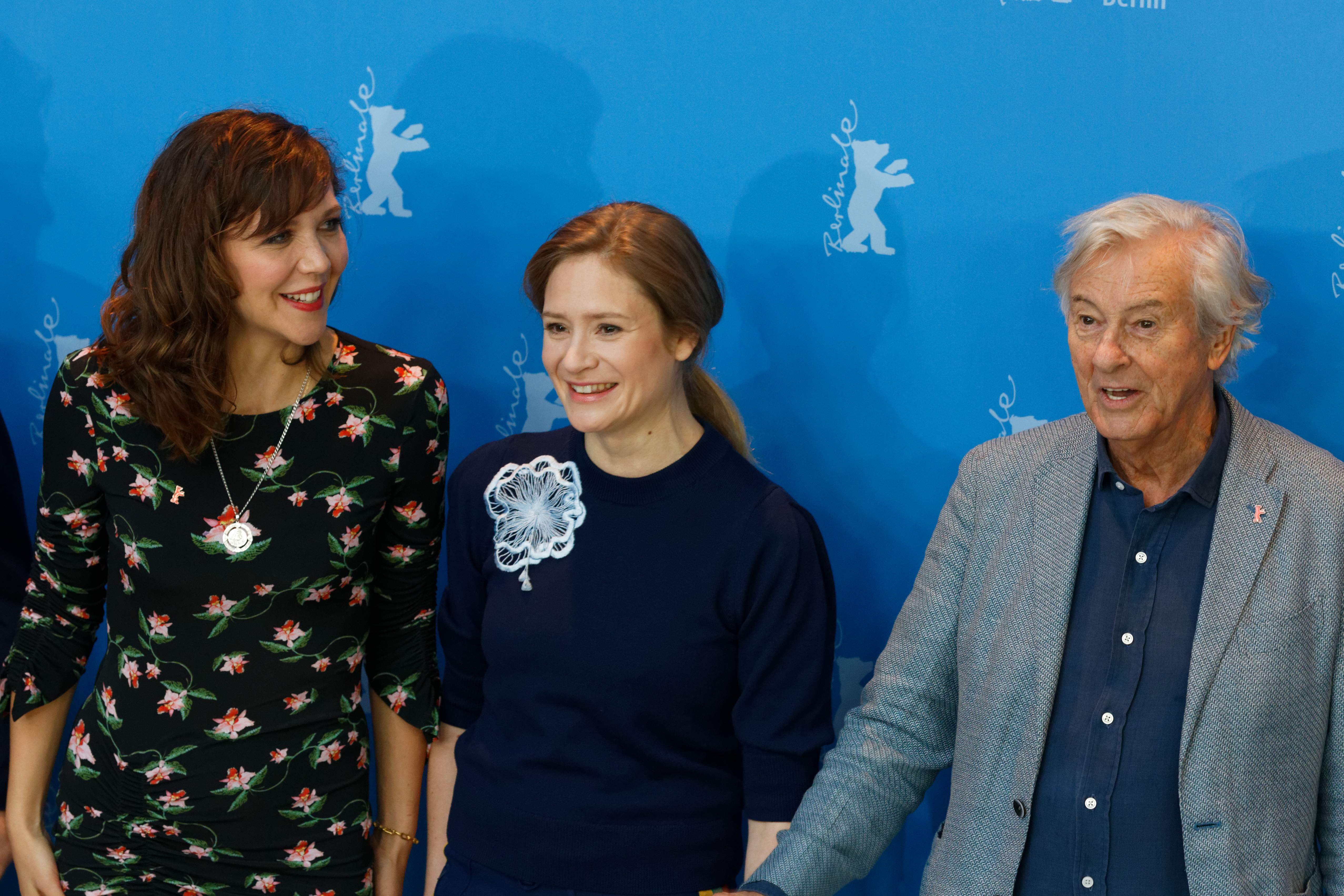 Maggie Gyllenhaal, Julia Jentsch and Paul Verhoeven at Berlinale 2017